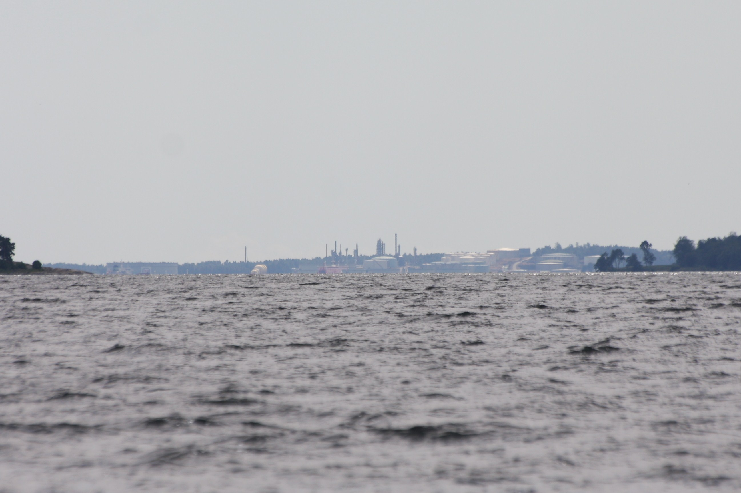 SLagentangen Esso (Exxon) rafinery in Vestfold, Norway.